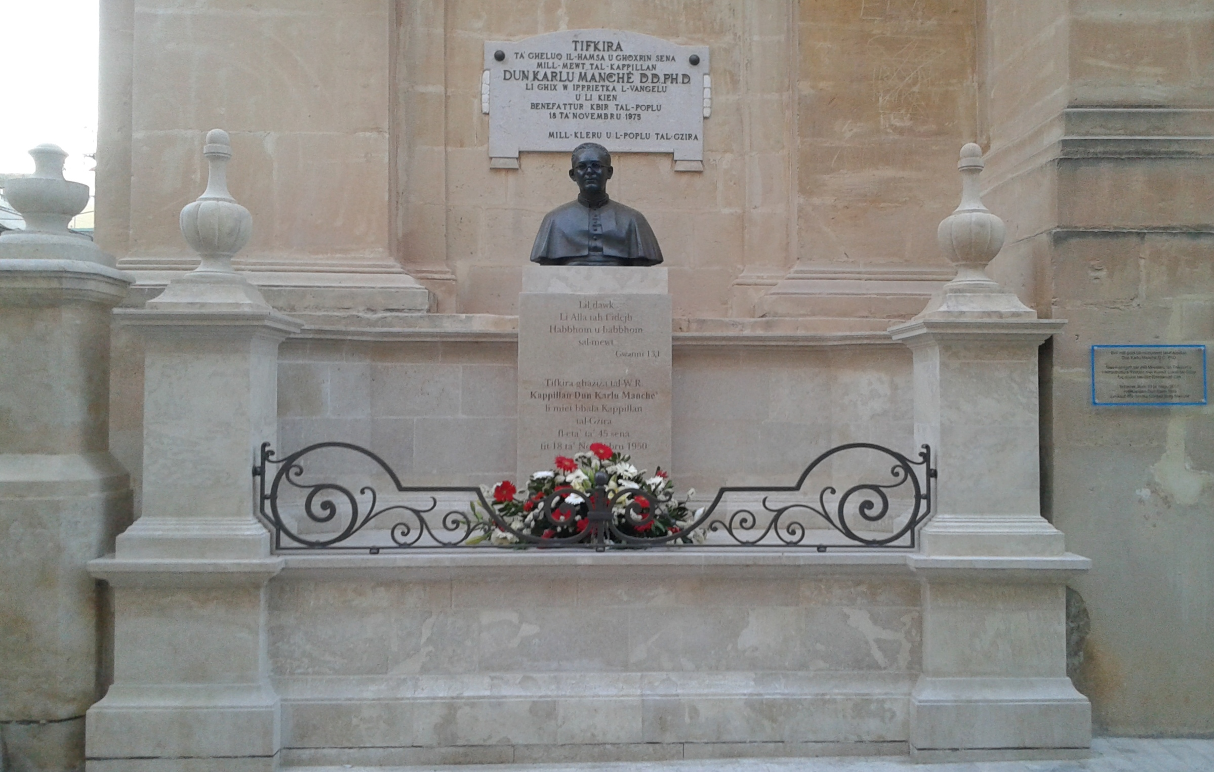 The monument of Fr. Carlo Manchè, erected in 2000 and embellished in 2017. Located adjacent to the Gżira Parish Church.